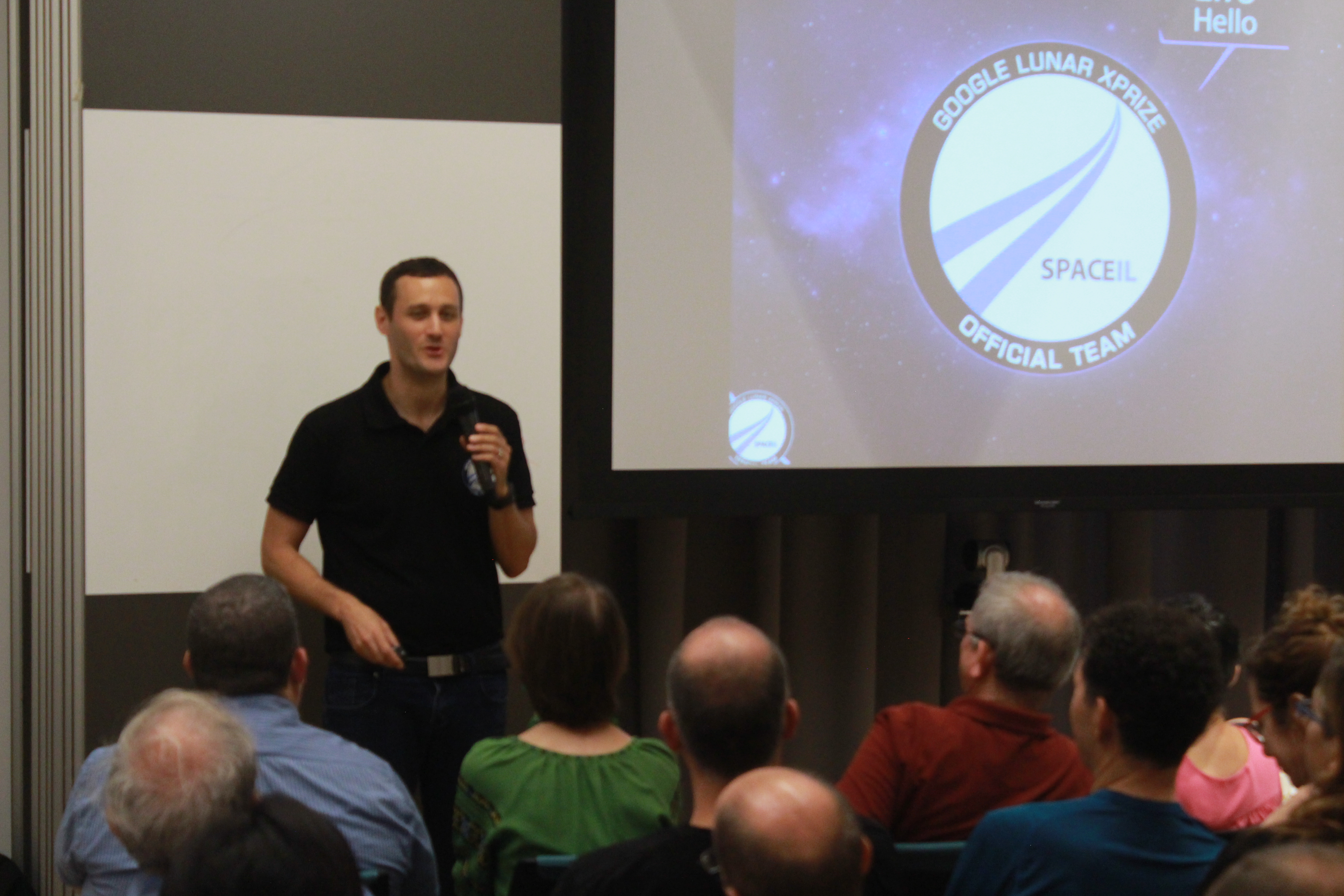 Hebrew Wikipedia's 15th Birthday celebration. Wikimedian meetups in Israel: August 2018